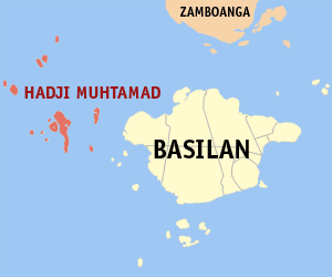 Map of the Basilan showing the location of Hadji Muhtamad